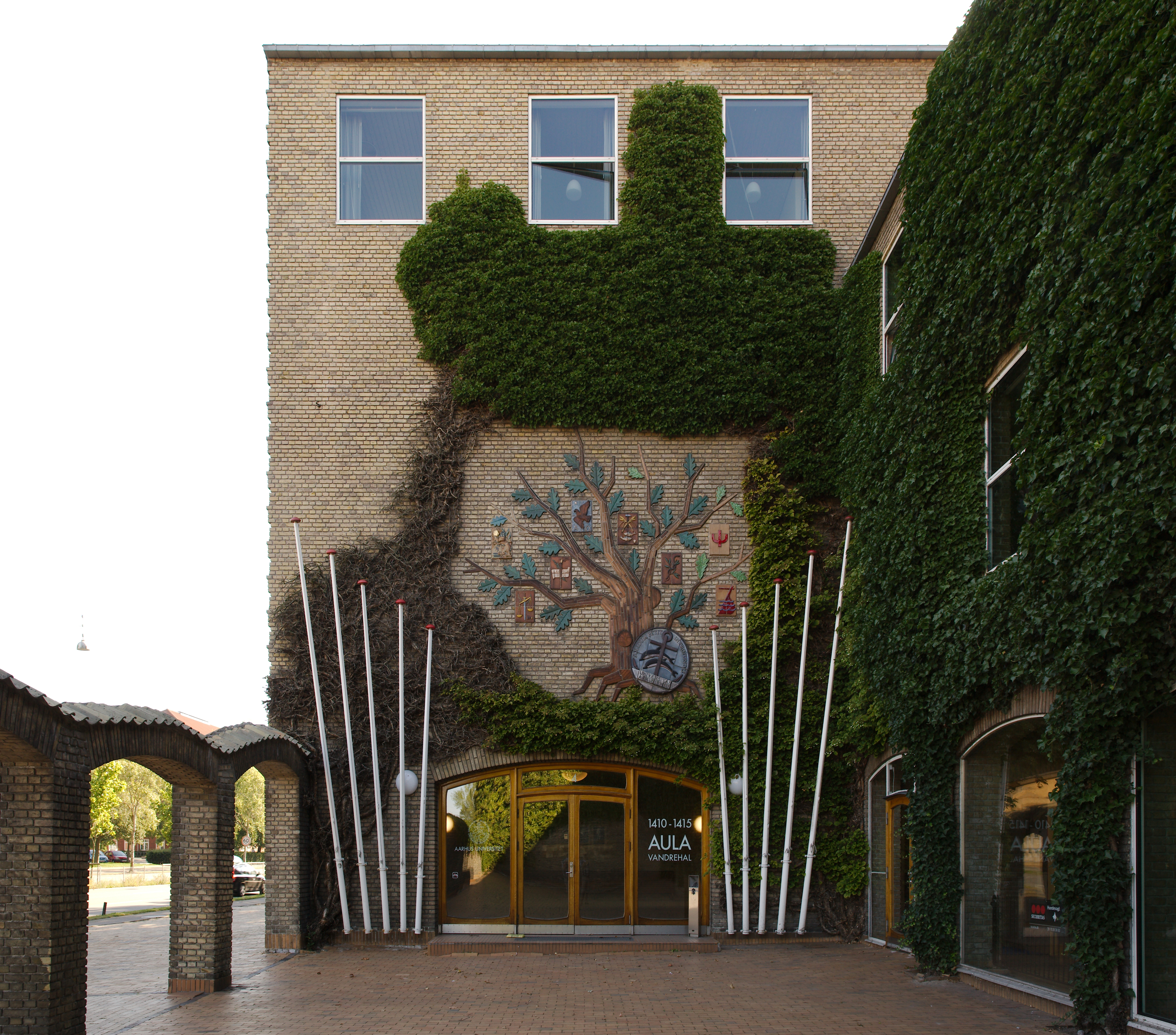 The main building's main entrance and Olaf Stæhr-Nielsen ceramic relief